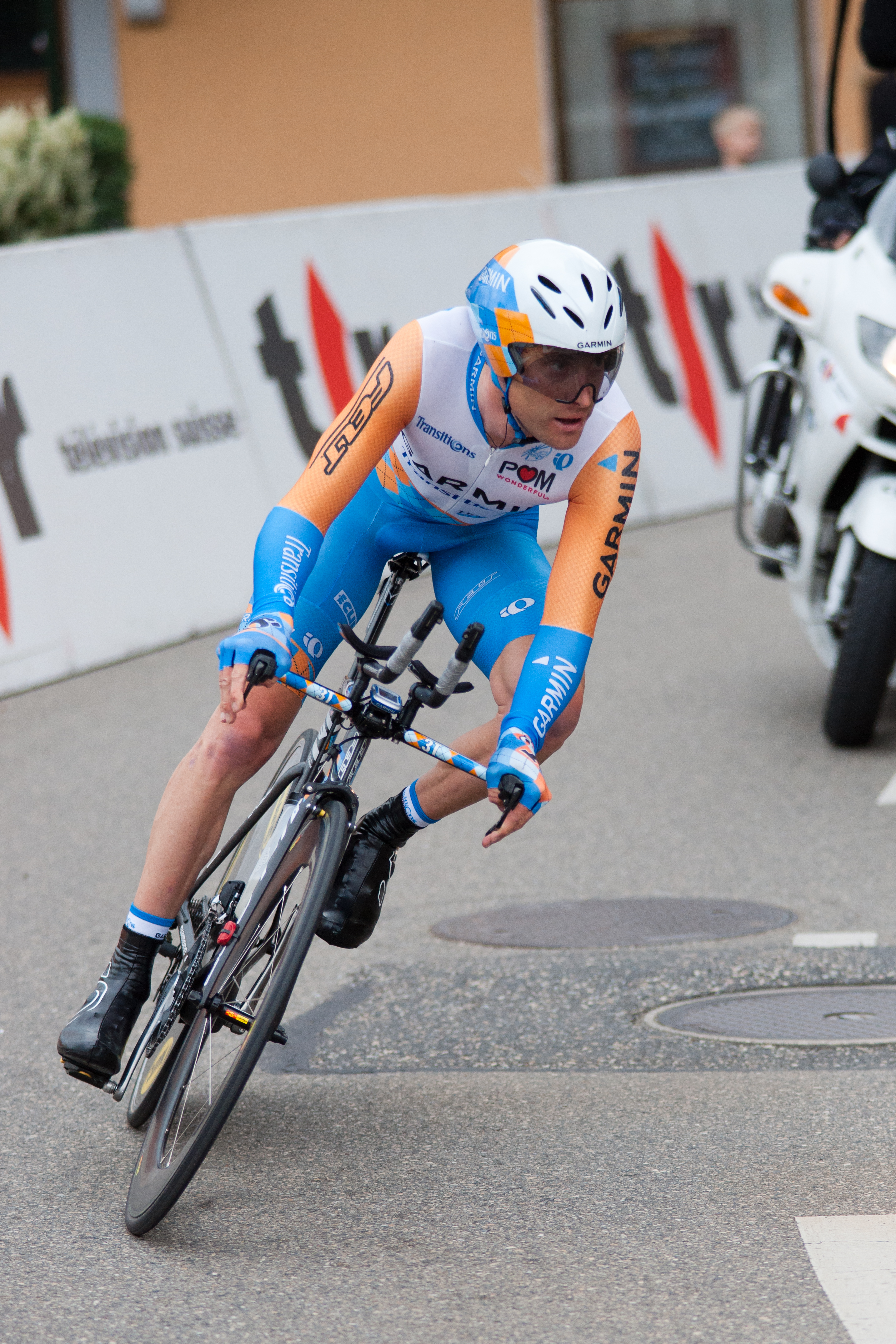 Christian Vandevelde during the 3rs stage of the Tour de Romandie 2010.